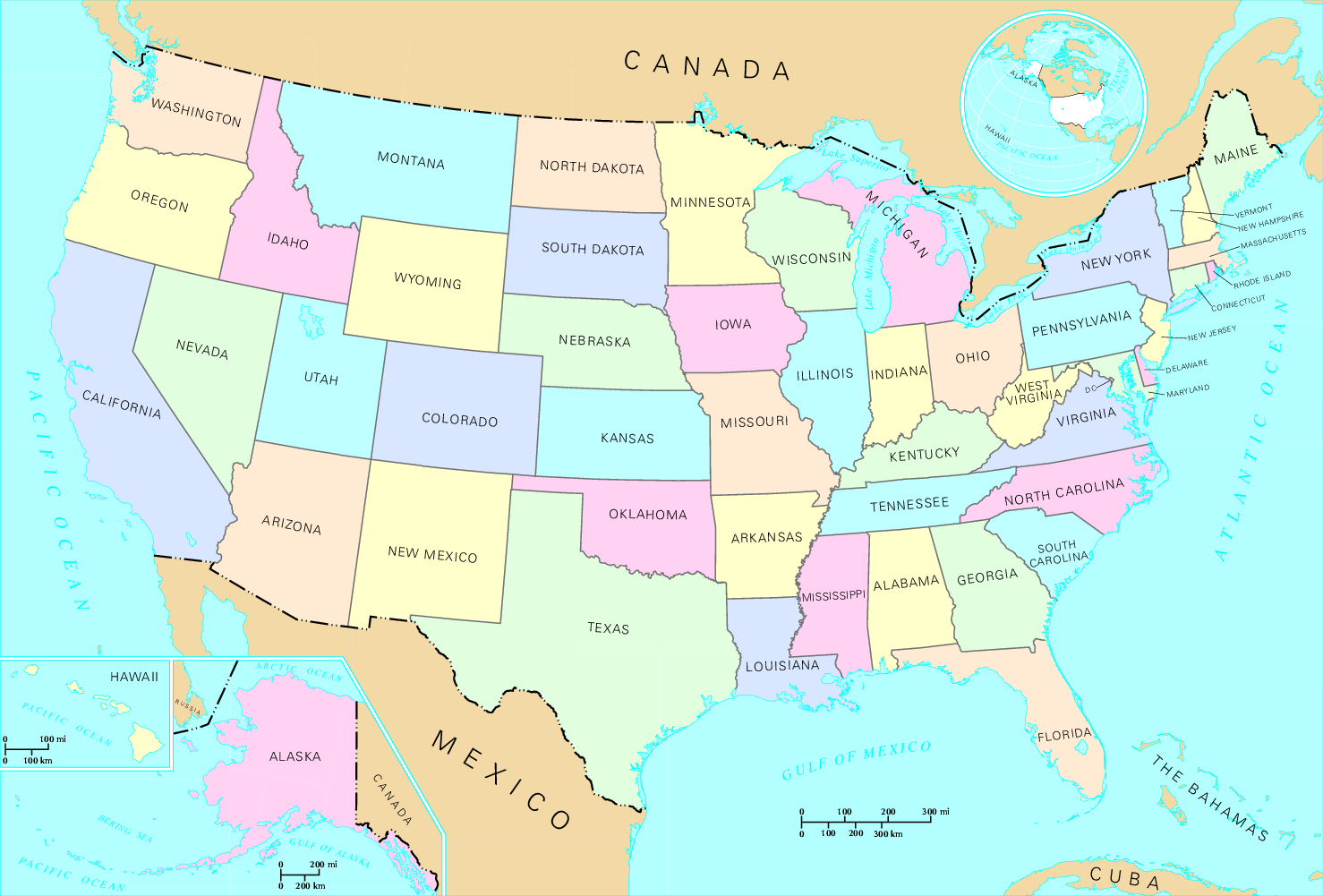 States of the United States.